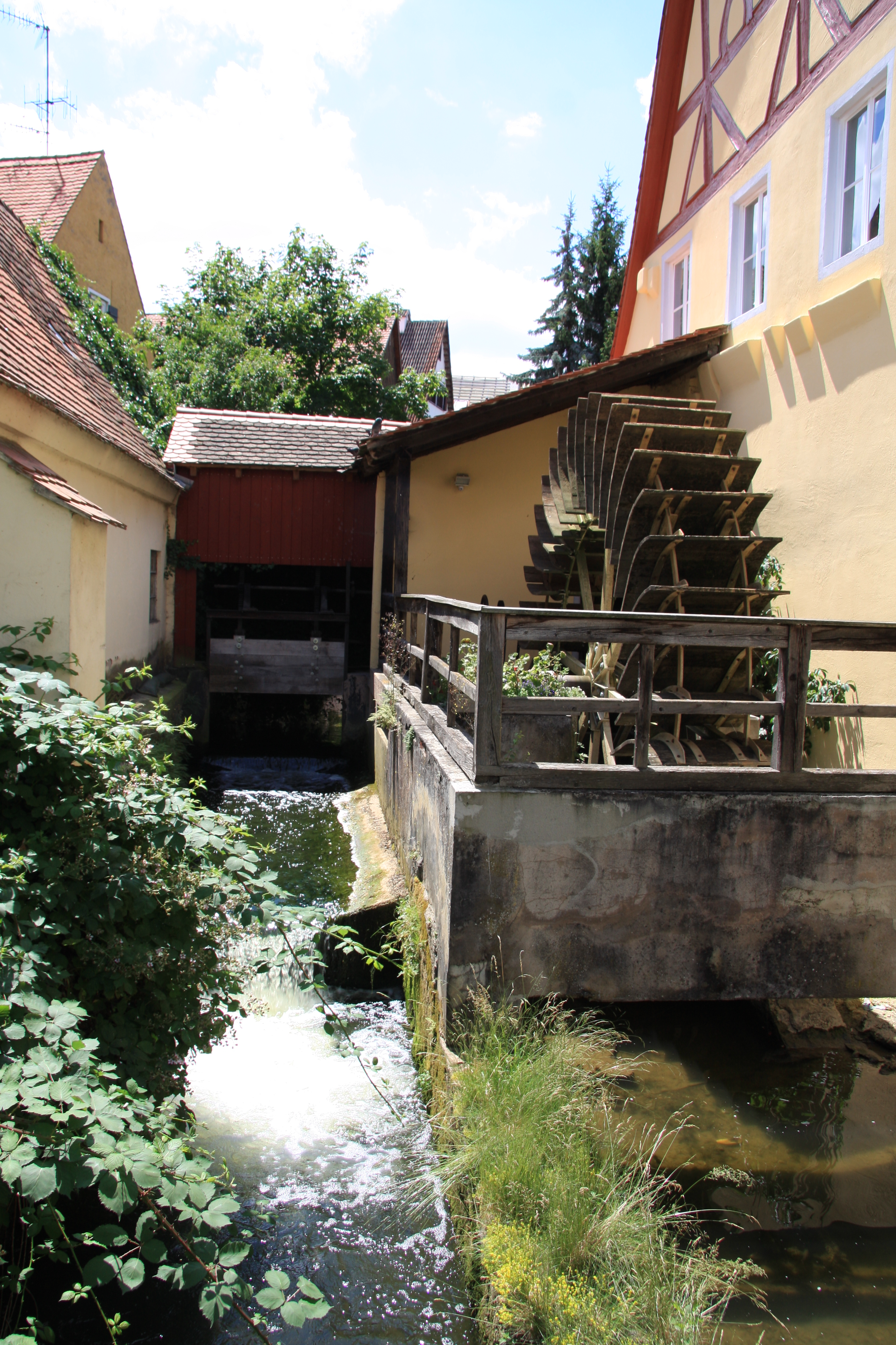 Noerdlingen: Eger stream